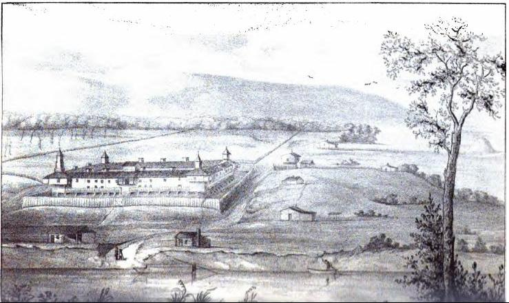 The Campus Martius fortification at the Marietta, Ohio settlement. Home to Rufus Putnam, Benjamin Tupper, Anselm Tupper, Arthur St. Clair, and other settlers during the Northwest Indian War. Construction began in 1788 and was fully completed in 1791. The Campus Martius was located on the east side of the Muskingum River, and upriver from its confluence with the Ohio River. The other fortification at the Marietta settlement was the Picketed Point stockade, built during 1791 on the east side of the mouth of the Muskingum River at its confluence with the Ohio, and directly across the Muskingum from Fort Harmar. Fort Harmar was constructed several years earlier in 1785, on the west side of the mouth of the Muskingum River. From the book by S. P. Hildreth: Pioneer History: Being an Account of the First Examinations of the Ohio Valley, and the Early Settlement of the Northwest Territory, H. W. Derby and Co., Cincinnati, Ohio (1848). Illustration plate located between pp. 214-15. ColWilliam (talk) 22:08, 30 March 2008 (UTC)